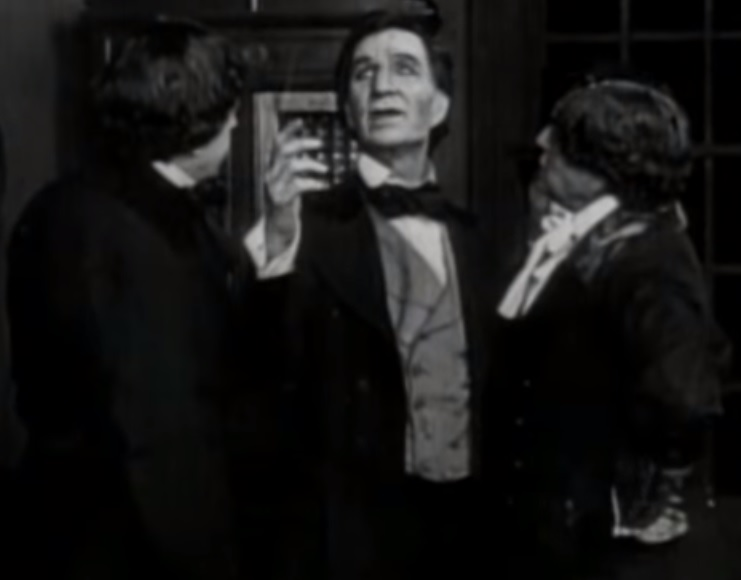 Frank McGlynn Sr. (center) in The Life of Abraham Lincoln - cropped screenshot